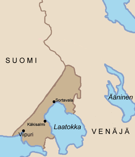 The part of Karelia that was conquered by the Soviet Union during World War II.